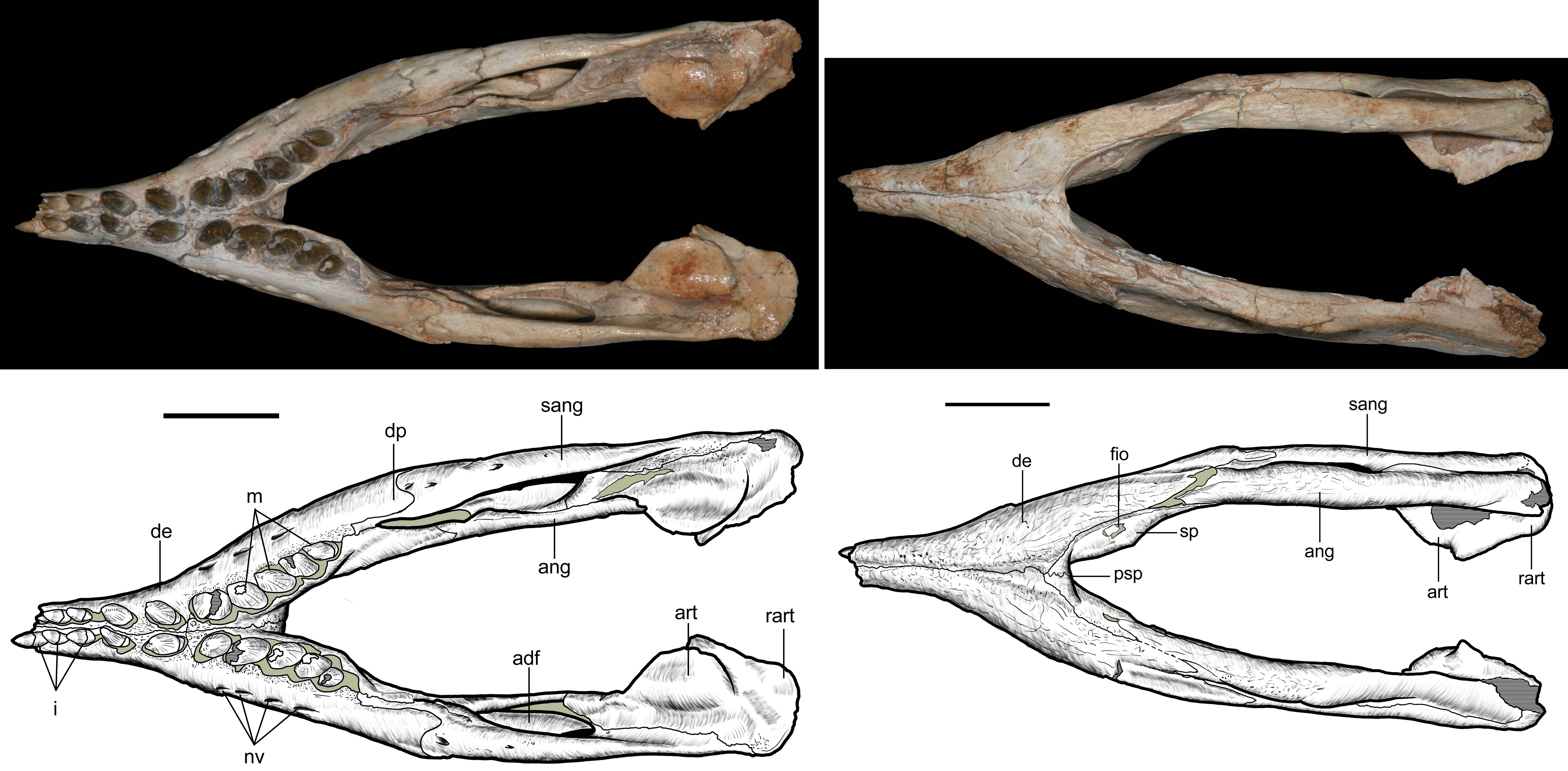 Left: Mandible of Caipirasuchus stenognathus (MZSP-PV 139) in dorsal view. Abbreviations: ang, angular; art, articular; de, dentary; dp, dorsal process of posterodorsal branch of the dentary; adf, aductor mandibular fossa; i, incisiviform; m, molariform; nv, neurovascular foramina; sang, surangular; rart, retroarticular process. Scale bar equals 2.5 cm. Right: Mandible of Caipirasuchus stenognathus (MZSP-PV 139) in ventral view. Abbreviations: ang, angular; art, articular; de, dentary; fio, foramen intermandibularis oralis; psp, posterior spleniel peg; sang, surangular; sp, splenial; rart, retroarticular process. Scale bar equals 2.5 cm.